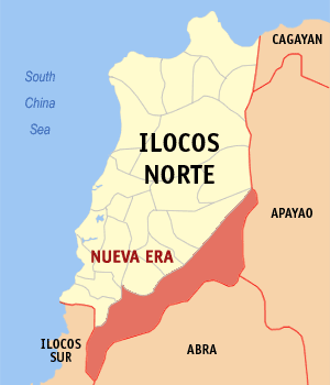 Map of Ilocos Norte showing the location of Nueva Era